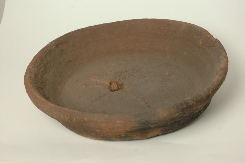 "Clay court" - archaeological site Lazarev Grad, National Museum Kruševac